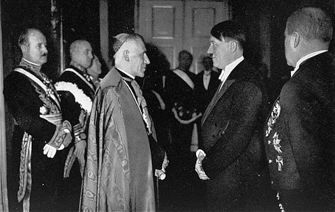 Hitler meeting the nuncio to Germany, Cesare Orsenigo, on January 1, 1935. From the US Holocaust Museum, In the public domain.